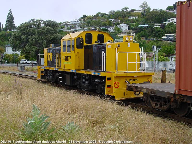 DSJ 4017 performing shunt duties at Ahuriri - 25 November 2003Photo by: Joseph ChristiansonSource: NZ Rail Volume 4 candidate